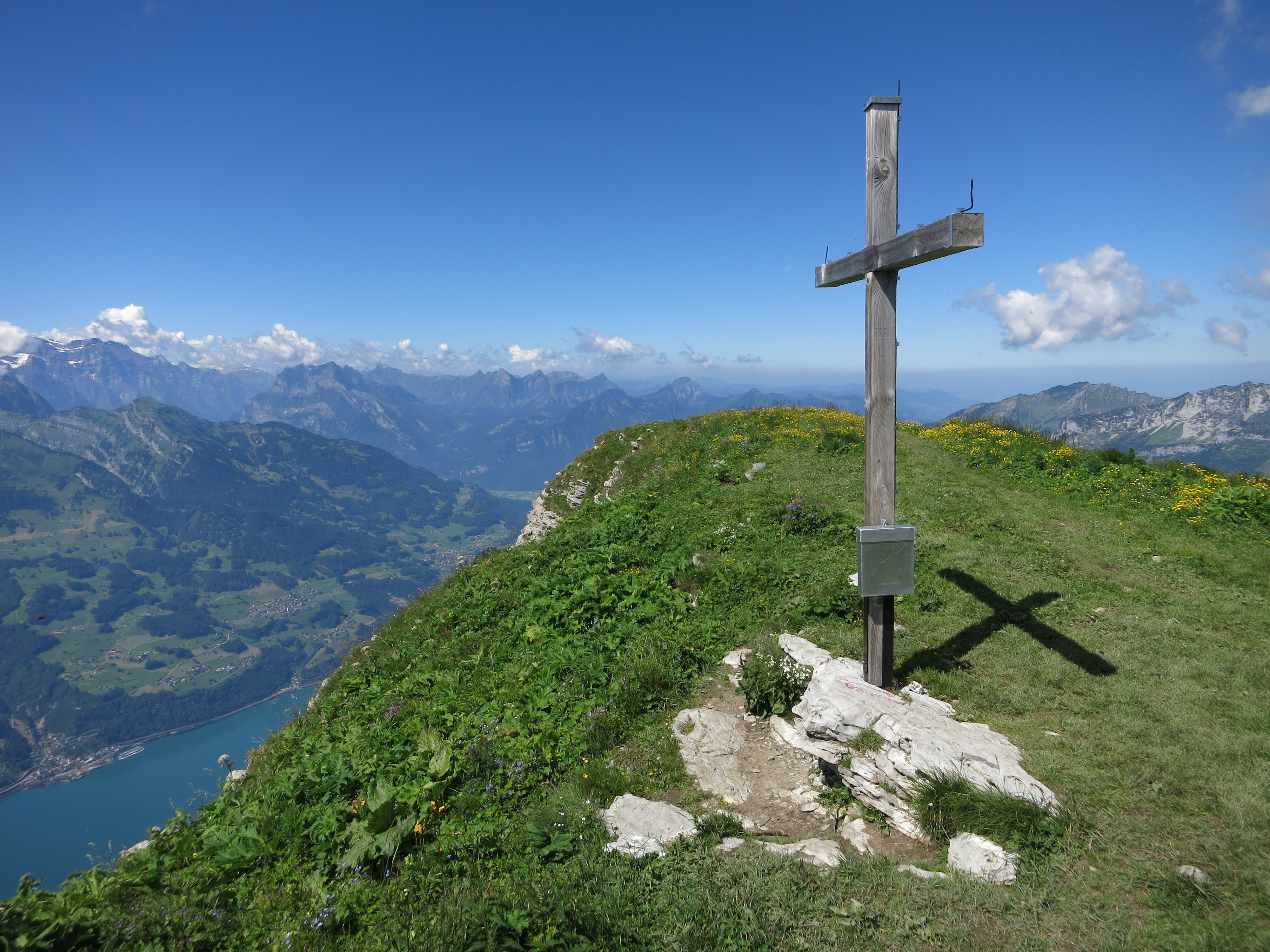 On top of mountain Leistchamm, Switzerland